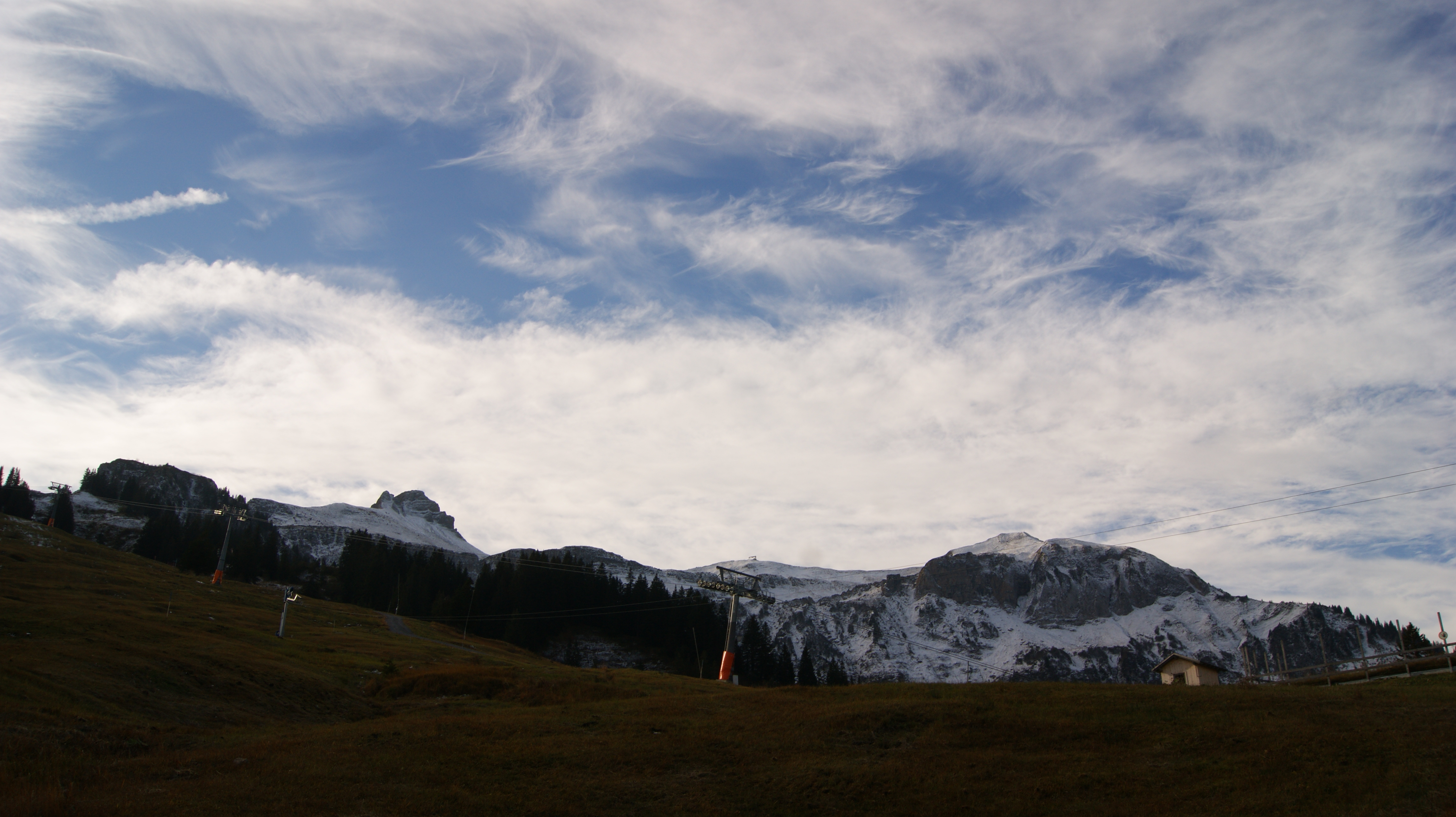 Ski run near the Cable car "Gipfelbahn" (meaning: Summit cable car) in Mellau, Vorarlberg, Austria.